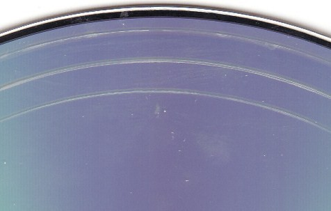 Xbox disc, Birmingham, England, 2007, by Paul Pietrzak